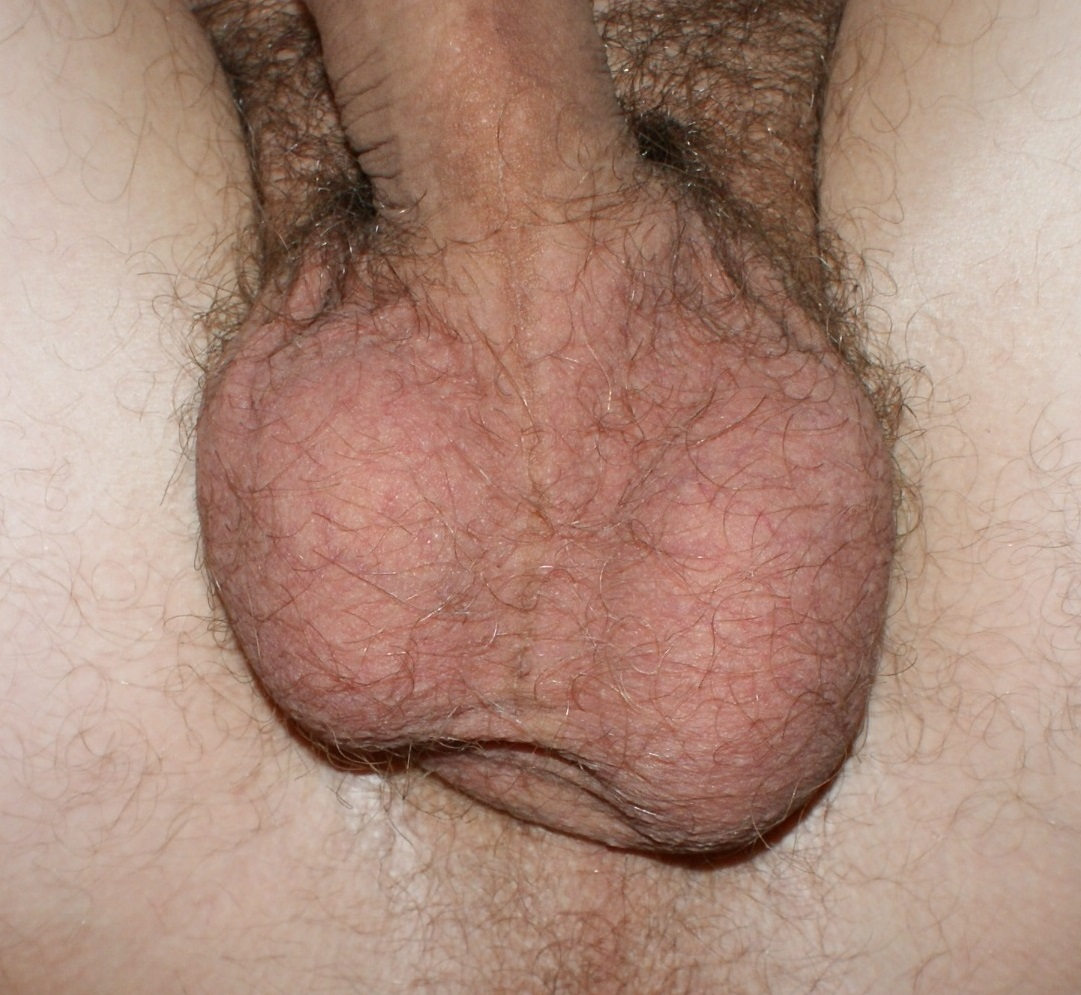 Human scrotum